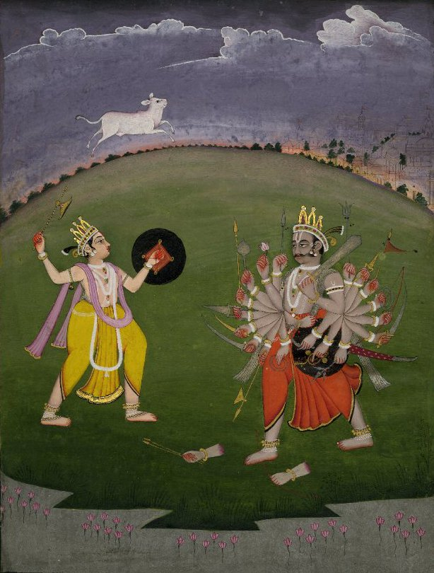 Gouache painting on paper. Viṣṇu in the form of Paraśurāma, the sixth avatar of the god. Paraśurāma, or Rama-with-the-axe, fights the many-armed corrupt Haihaya king, Arjuna Kartavirya. A palace can be seen in the distance, behind the hill used as a backdrop for the two main figures.